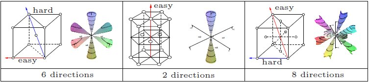 Examples of different sets of easy axes.